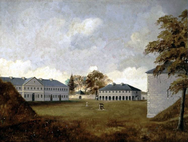 Painting, Fort Lennox, Isle-aux-Noix, QC, 1886, Henry Richard S. Bunnett, Oil on canvas. 31 x 41 cm